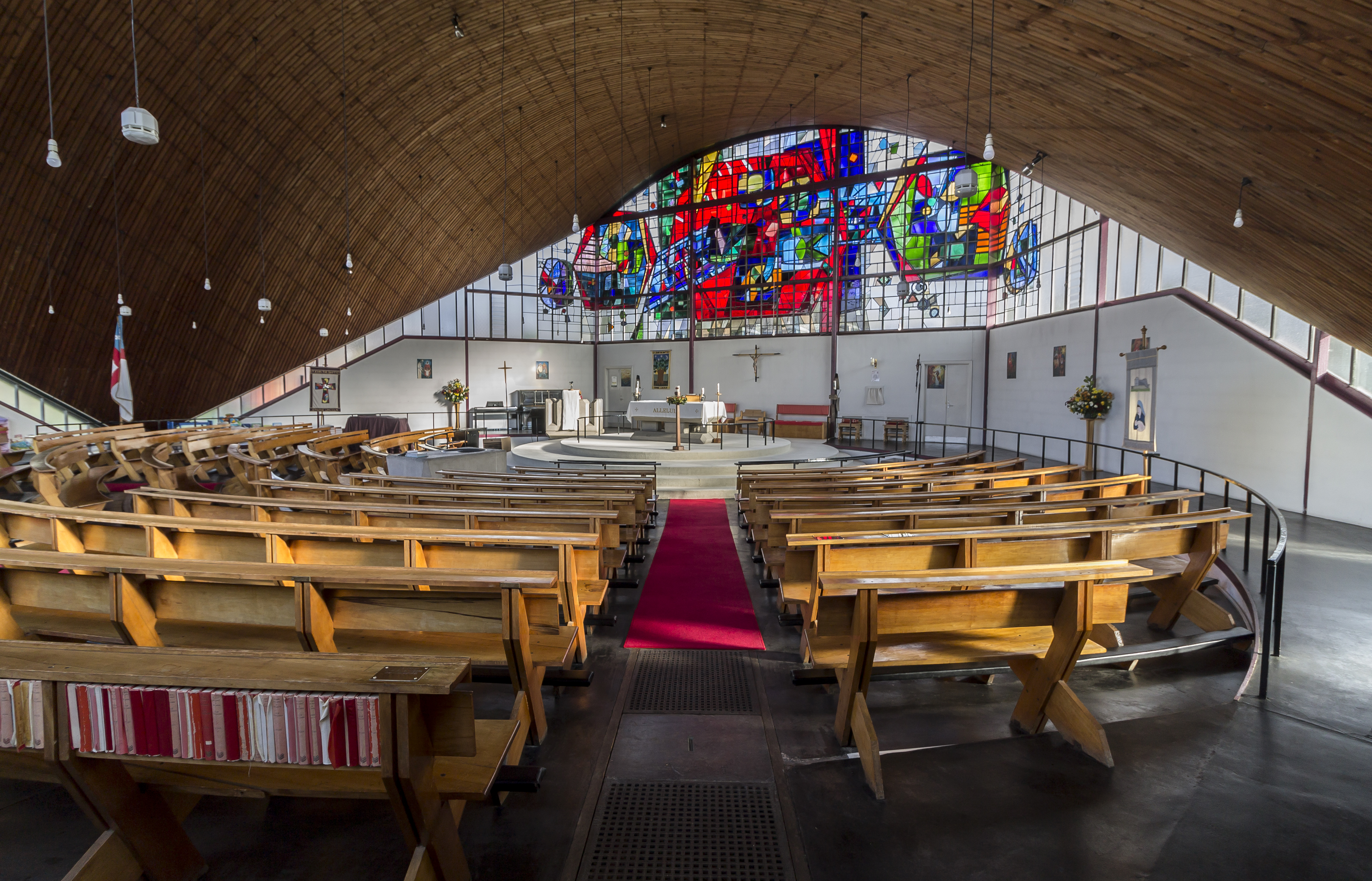 Pic by Jenny. The church dates from 1962 and was designed by the architect Sam Scorer, after plans for a parish church were initiated in 1959. The church cost £22,960. It is located on the Ermine estate which was built from the 1950s onwards. The church plan is based on a hexagram, and was designed that the congregation should be gathered round the altar during services. The church consists of a saddle like roof (hyperbolic paraboloid) which sweeps down to ground level north and south. There is clear glazing to the west, and to the east there is stained-glass by Keith New. The window, which is completely abstract, is based on a series of hexagonal shapes which echo the shape of the church in plan. The theme of the window is "Revelation of God's plan for Man's redemption". There is an entrance porch and toilets at the west end. There is also a vestry extension to the east. Inside the ceiling is of varnished wood with plain walls and a small glazed strip above. The pews form semicircles around the front of the sanctuary where the altar is on a slightly raised area. The floor slopes slightly down from the entrance to the font which is located in front of the altar. The font is constructed of reinforced concrete and is located in the exact centre of the building. The foundation stone lies at its base. Originally a bell tower or small chapel was planned at the back of the church, however this was not built due to lack of funds. Most money for the church was raised through schemes such as a "Buy a Brick" project. The building is a major contribution to church architecture of this period, combining innovative architectural thinking with advanced liturgical planning, and a complete set of original fittings, including artist-designed stained glass and metalwork of high quality.